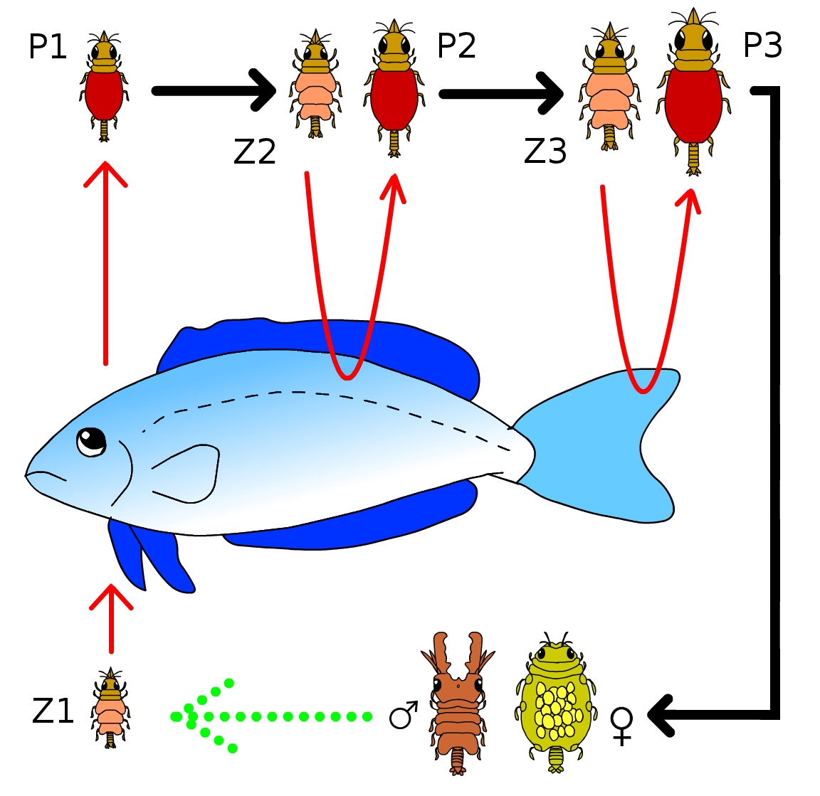 Life cycle of gnathiid isopods. Z1-Z3 - zuphea states of respective manca stages, P1-P3 - praniza states, ♀♂ - adult stage. Black lines depict moltings, red lines - attachment to/detachment from the host (fish), green line - boundary between successive generations.